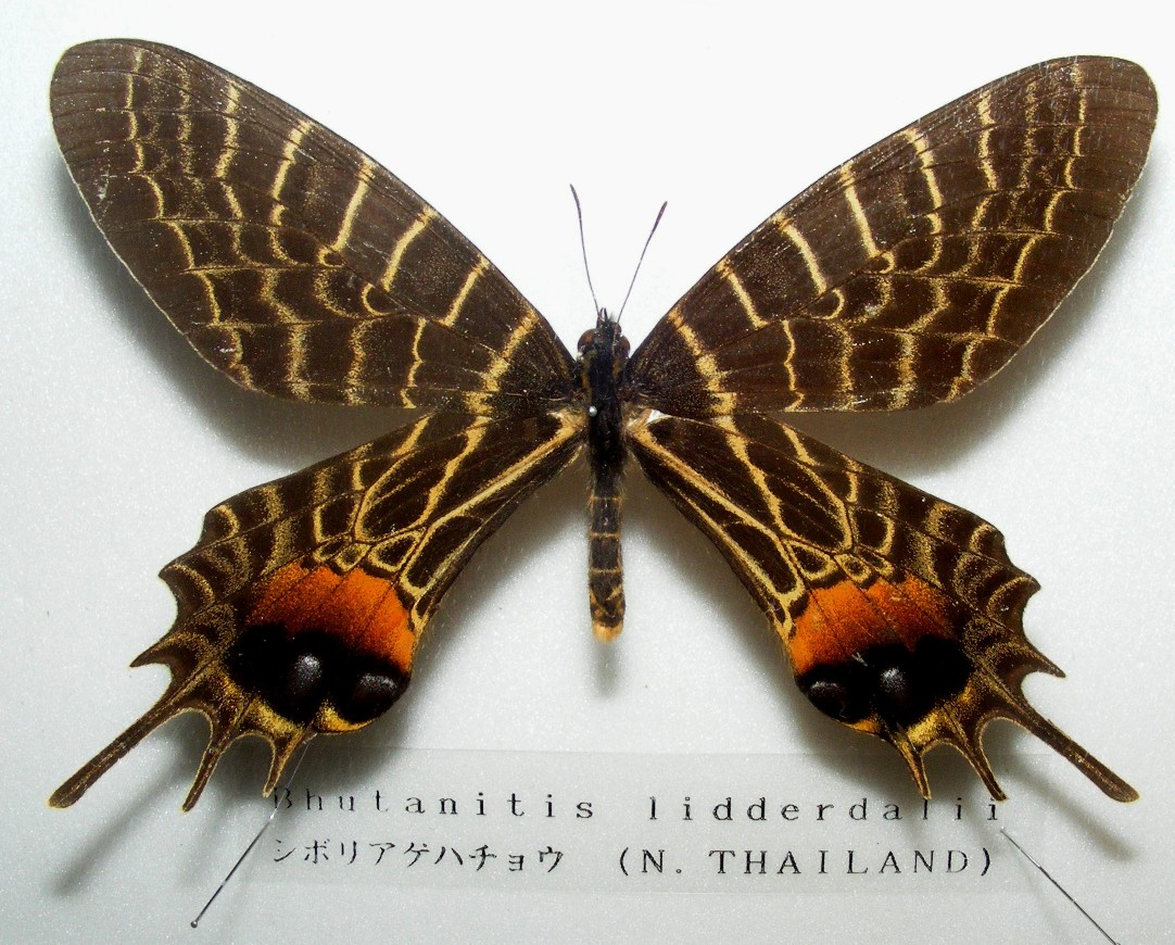 The Bhutan Glory, Bhutanitis lidderdalii Butterfly Park Singapore DSCF5982 (45).